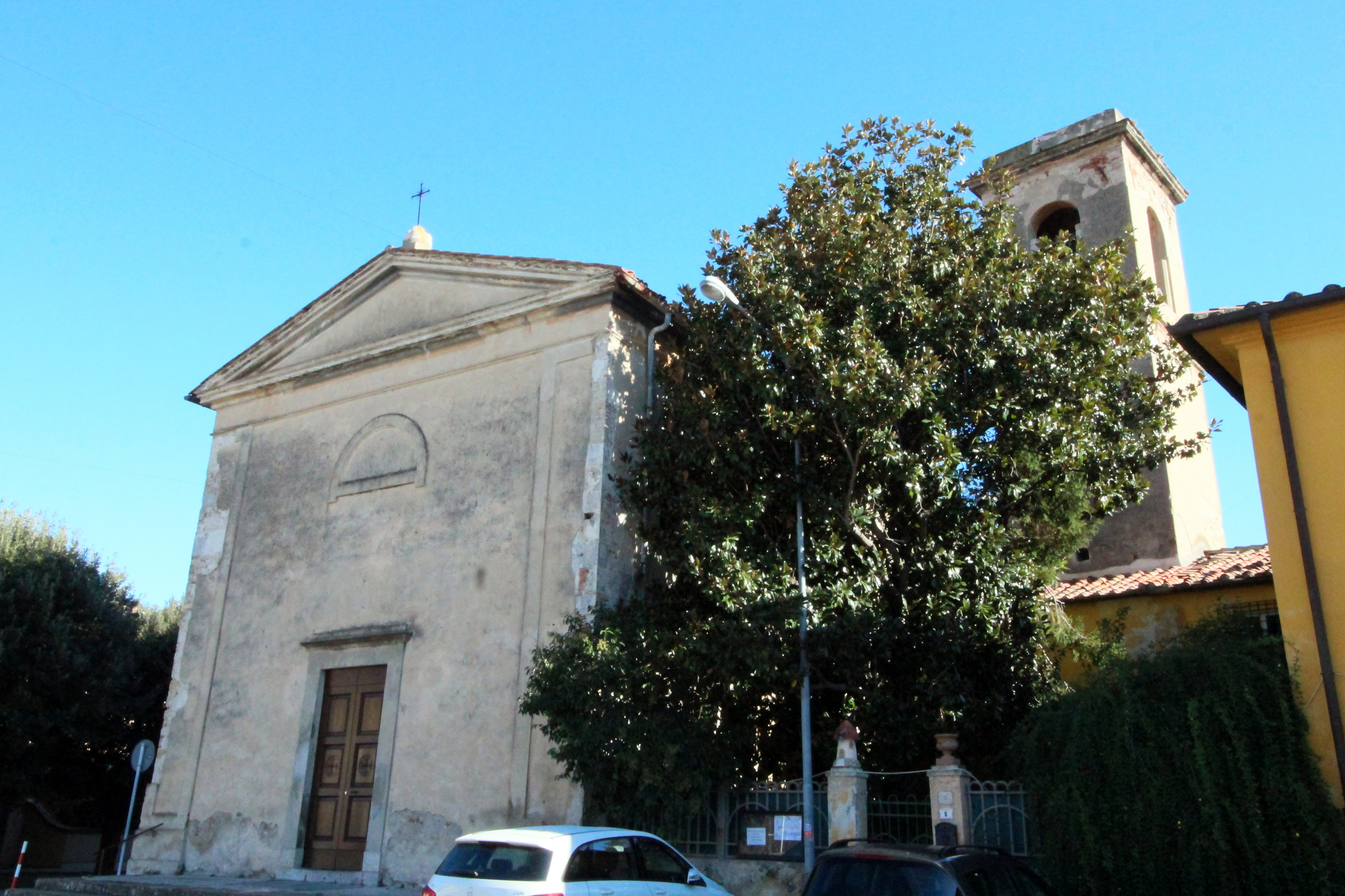 Church Santi Quirico e Giulitta, Lugnano, hamlet of Vicopisano, Province of Pisa, Tuscany, Italy.